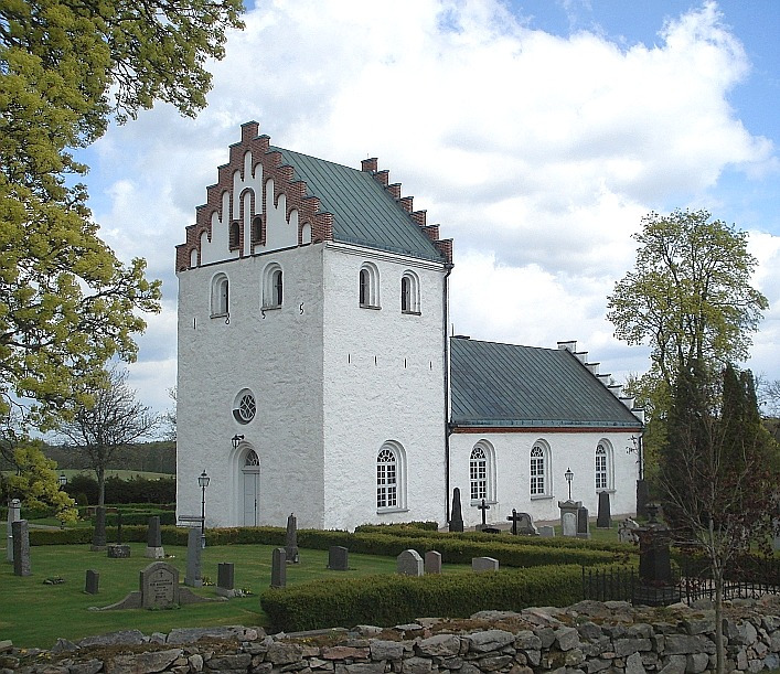 Nävlinge church in Nävlinge village, Hässleholm Municipality, Sweden